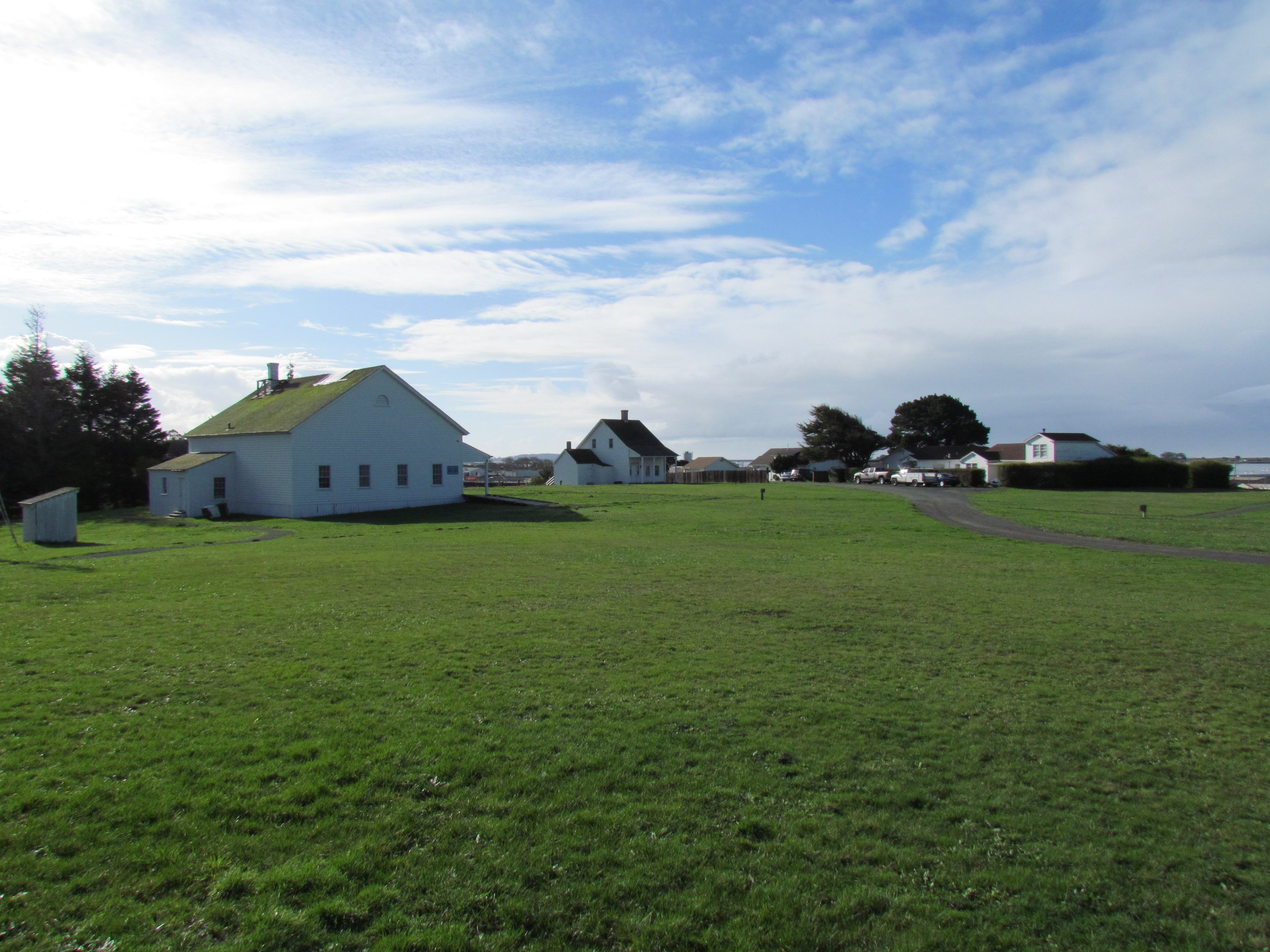 Buildings at Fort Humboldt. Eureka, California